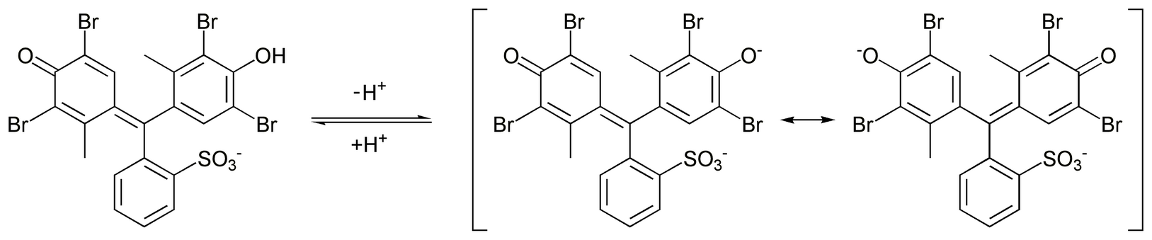 Description: bromocresol green ionic equilibrium. Author, date of creation: self-made by User:nevermore78, April 03, 2006 Source: - self-made Copyright: Released to the Public Domain Comments: high-resolution b/w PNG; ChemDraw / ACDSee